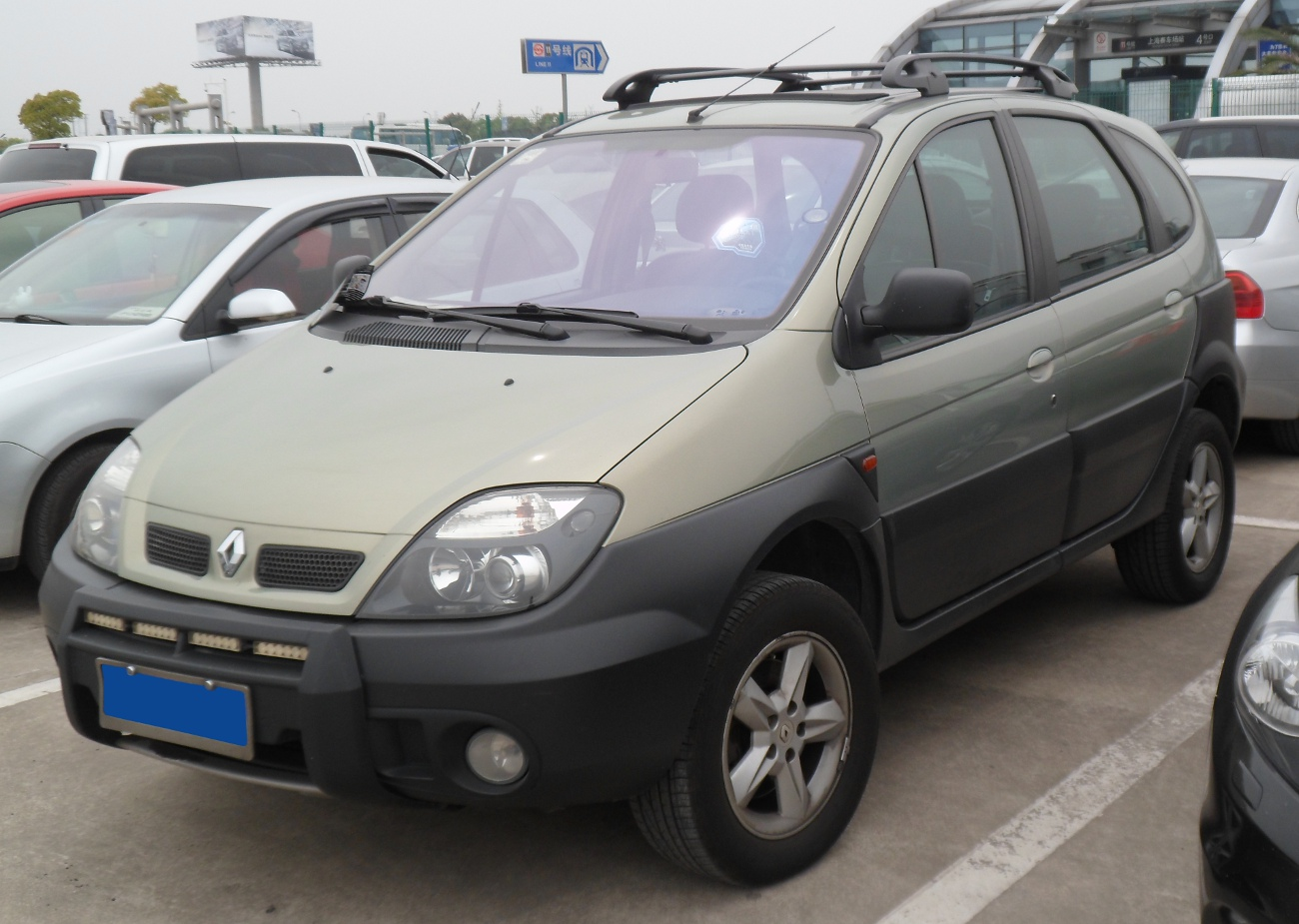 Renault Scénic RX4 photographed in Anting, Shanghai municipality, China.